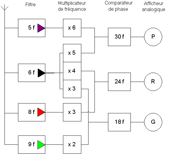 Decca synoptics receiver